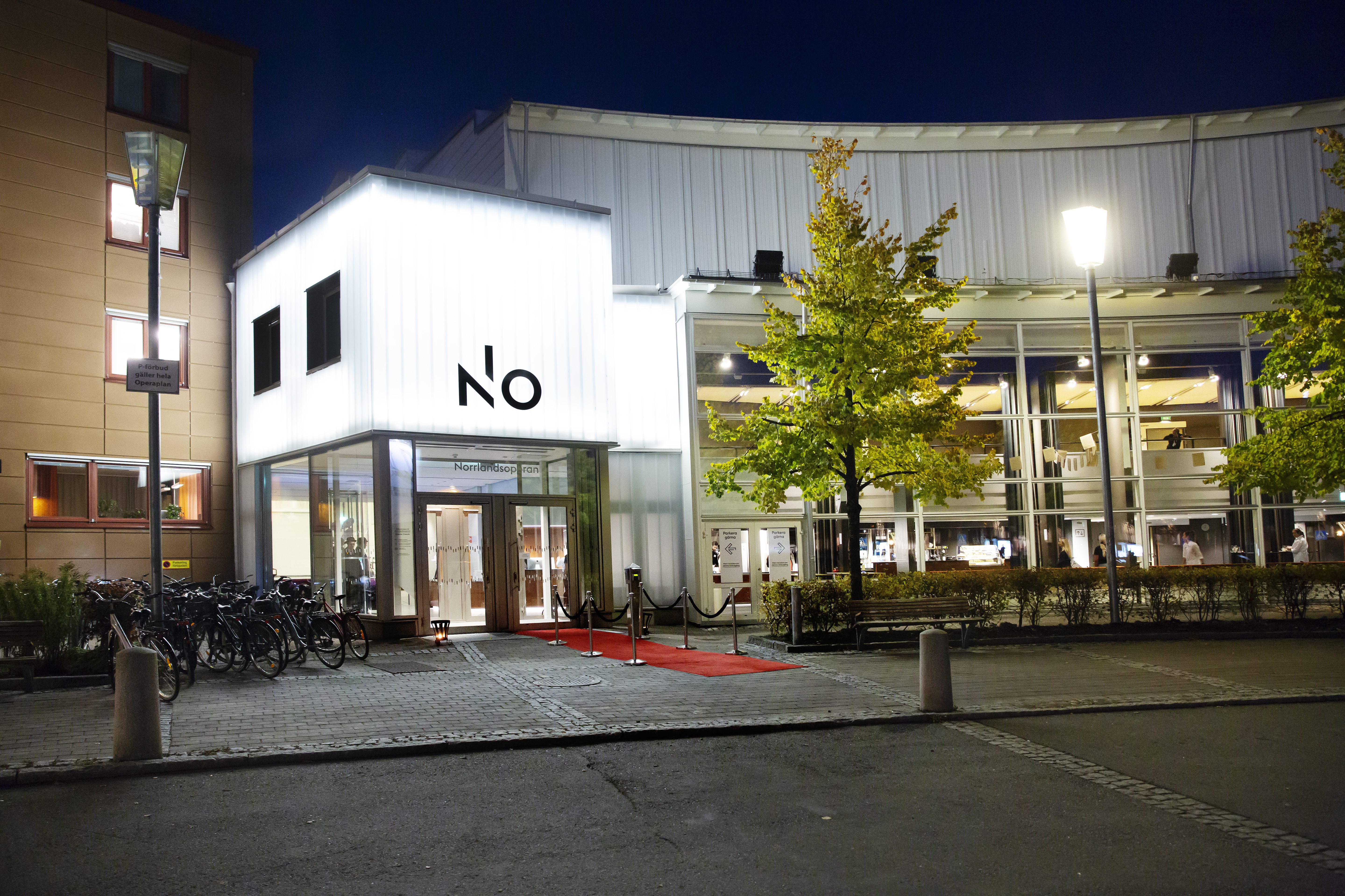 Norrlandsoperan